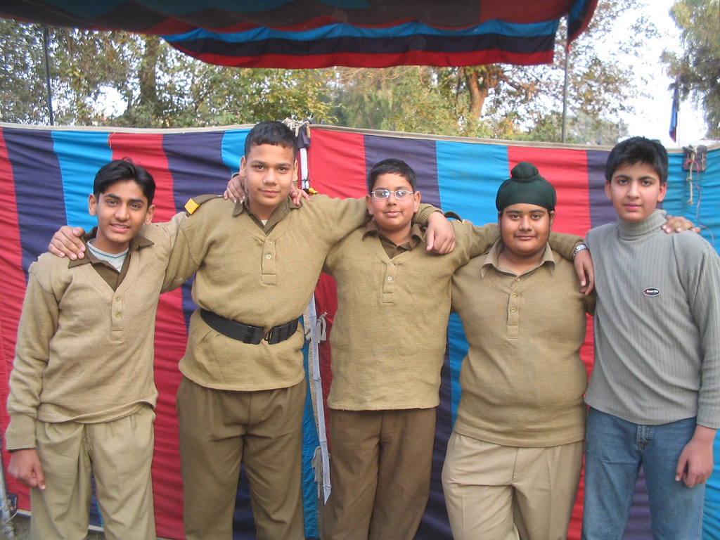 Cadets of the National Cadet Corps (NCC)